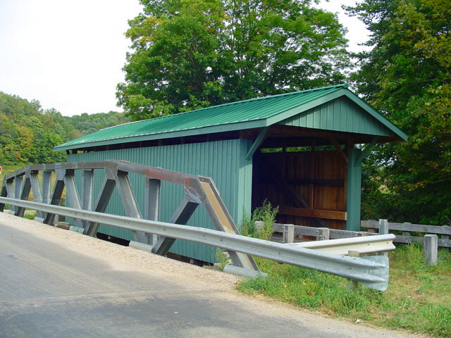 Southeastern end and southwestern side of the Mt. Olive Road Covered Bridge, which formerly carried Mount Olive Road over the Middle Fork of Salt Creek northeast of Allensville in Jackson Township, Vinton County, Ohio, United States. Built in 1875, it is listed on the National Register of Historic Places.